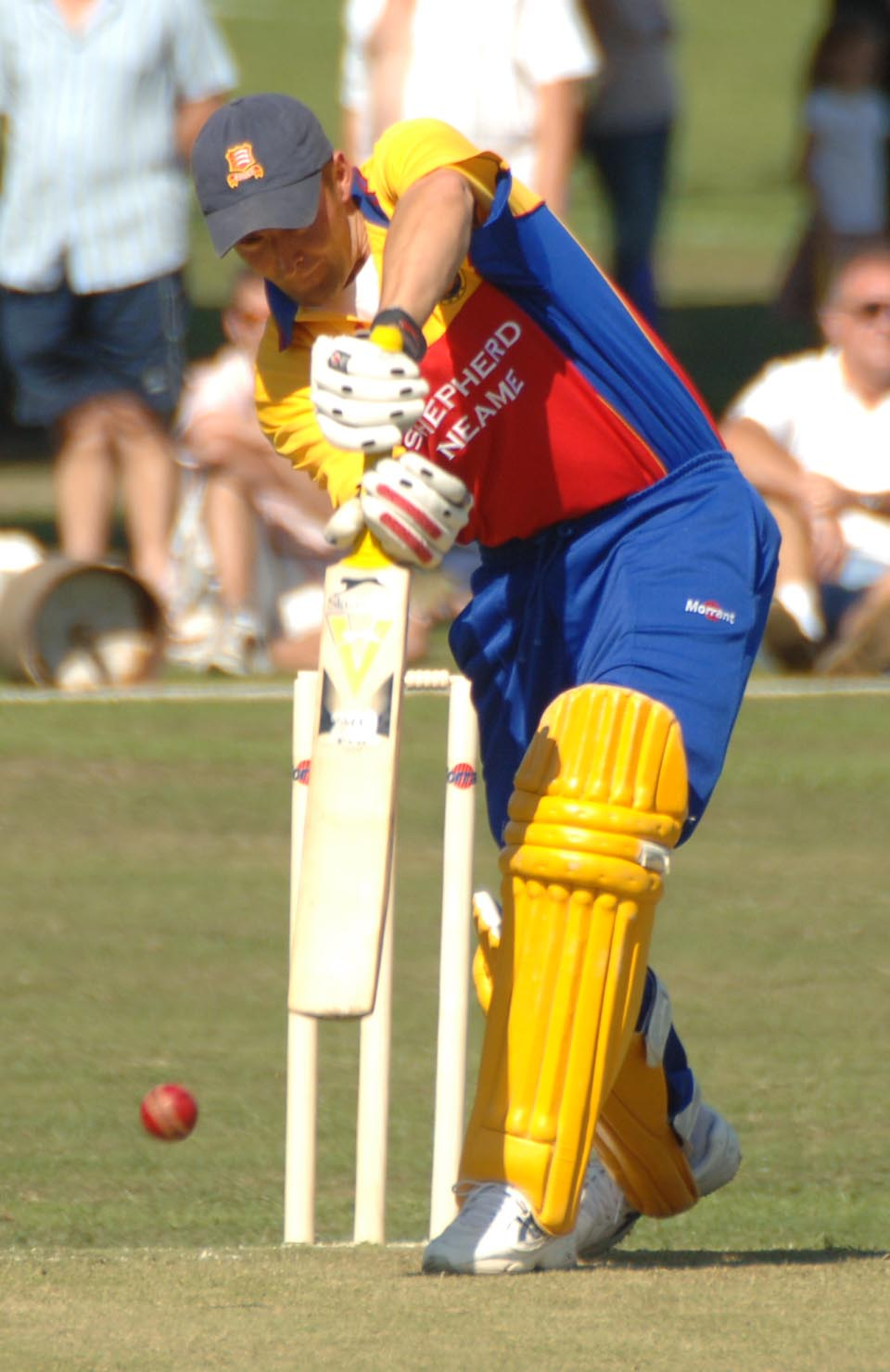 Paul Grayson batting in his Benefit match against Upminster CC